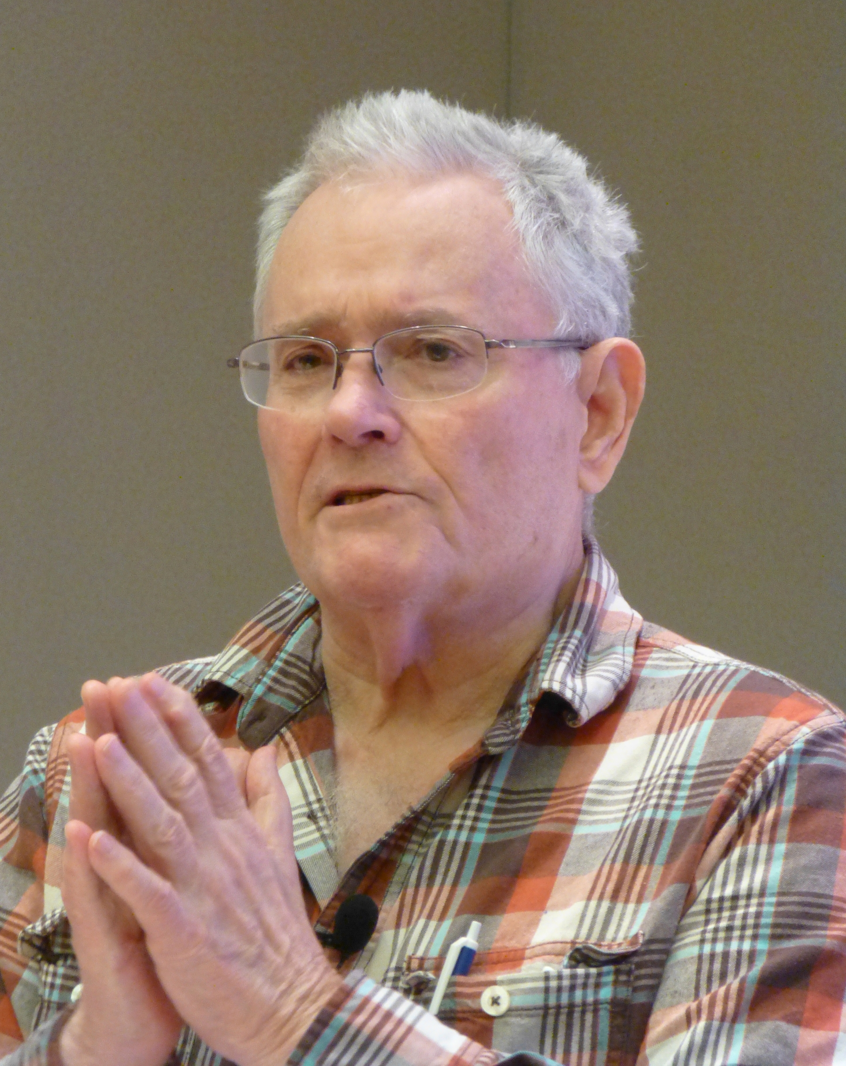 Harry Britt giving a lecture at Berkeley Public Library to the East Bay Atheists.